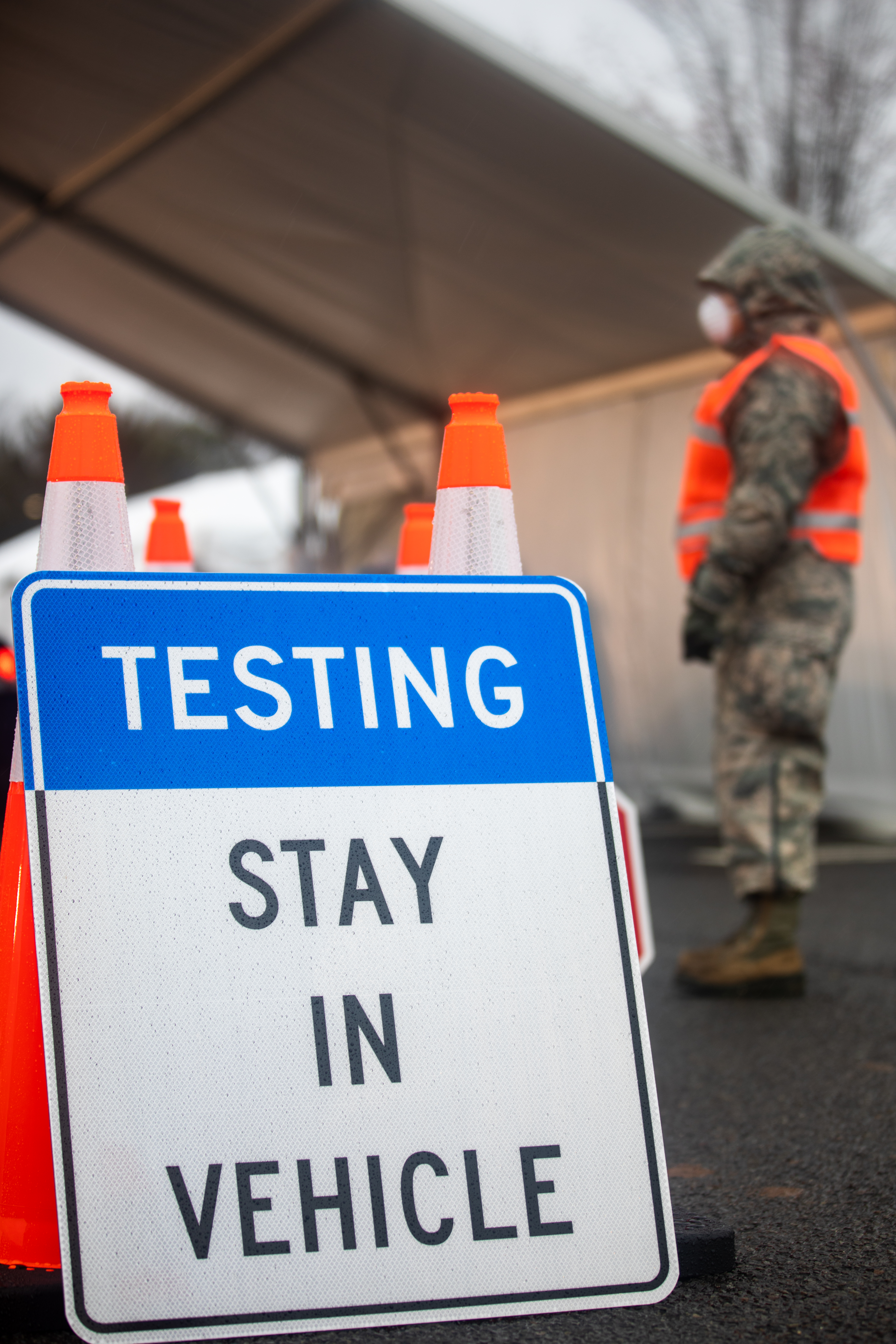 A New Jersey National Guard Airman provides traffic control at a COVID-19 Community-Based Testing Site at the PNC Bank Arts Center in Holmdel, N.J., March 23, 2020. The testing site, established in partnership with the Federal Emergency Management Agency, is staffed by the New Jersey Department of Health, the New Jersey State Police, and the New Jersey National Guard. (U.S. Army National Guard photo by Spc. Michael Schwenk)